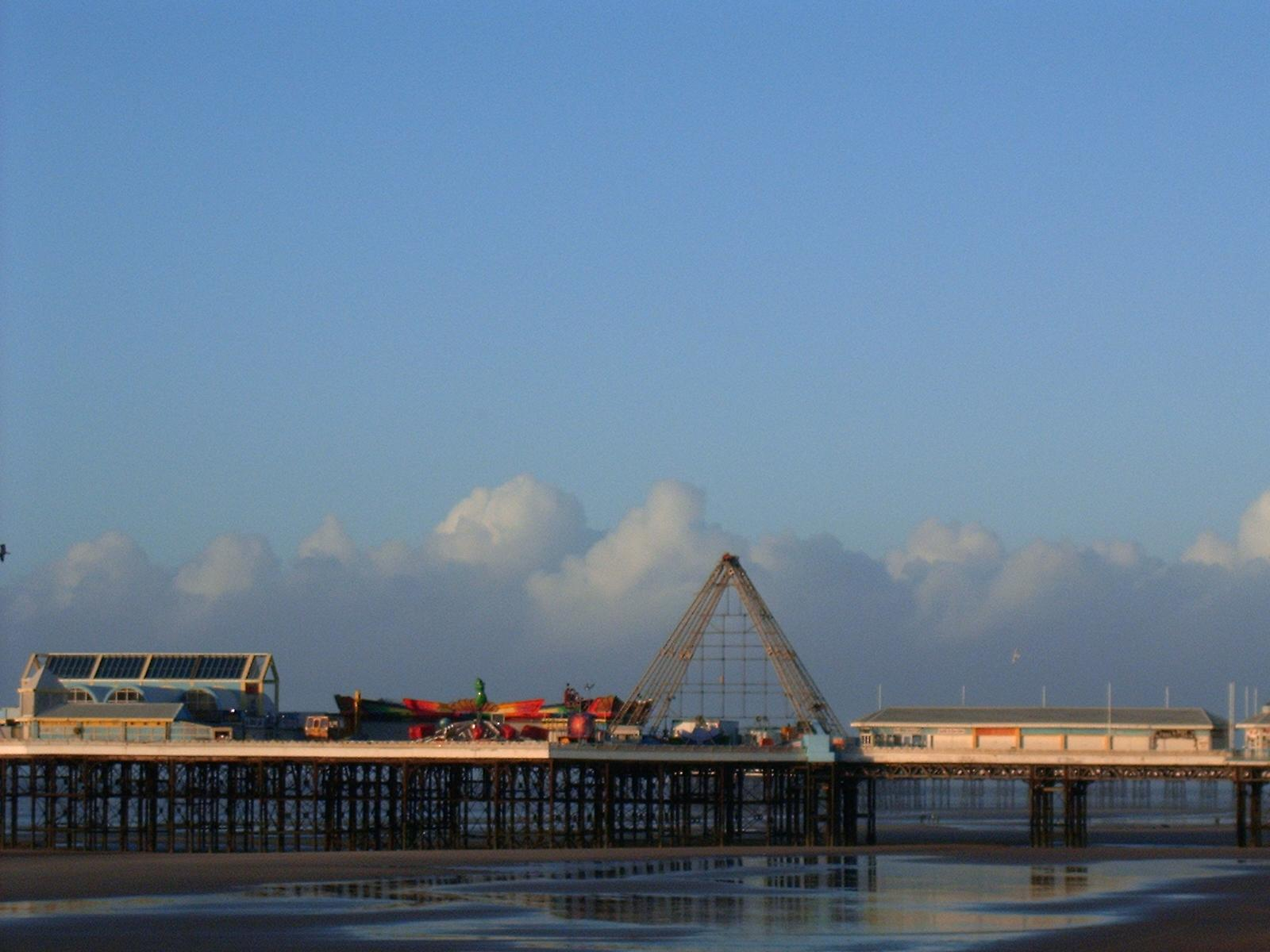 Blackpool's Central Pier in Winter - the wheel has been taken down.